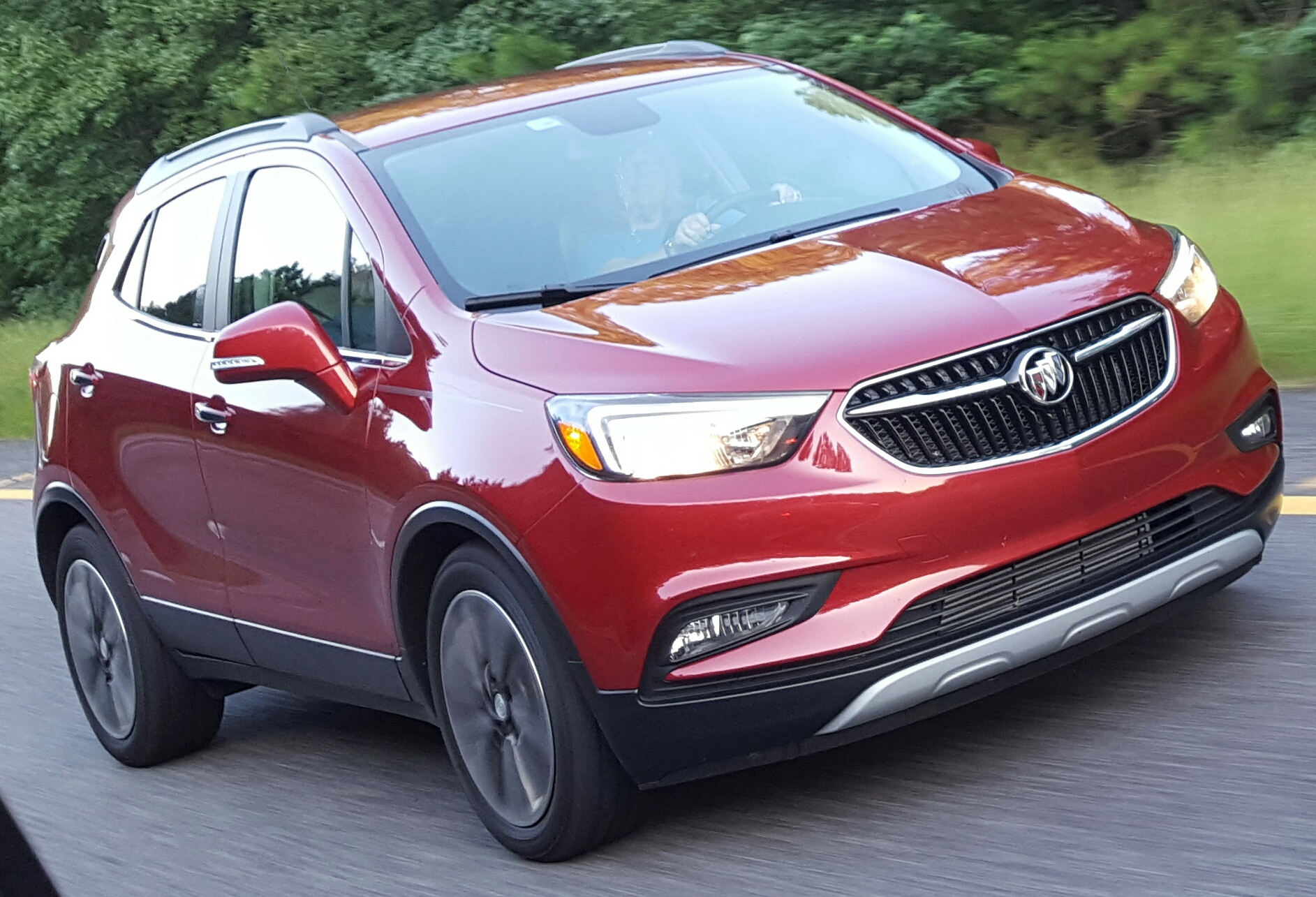 2017 Buick Encore photographed in South Carolina, USA.